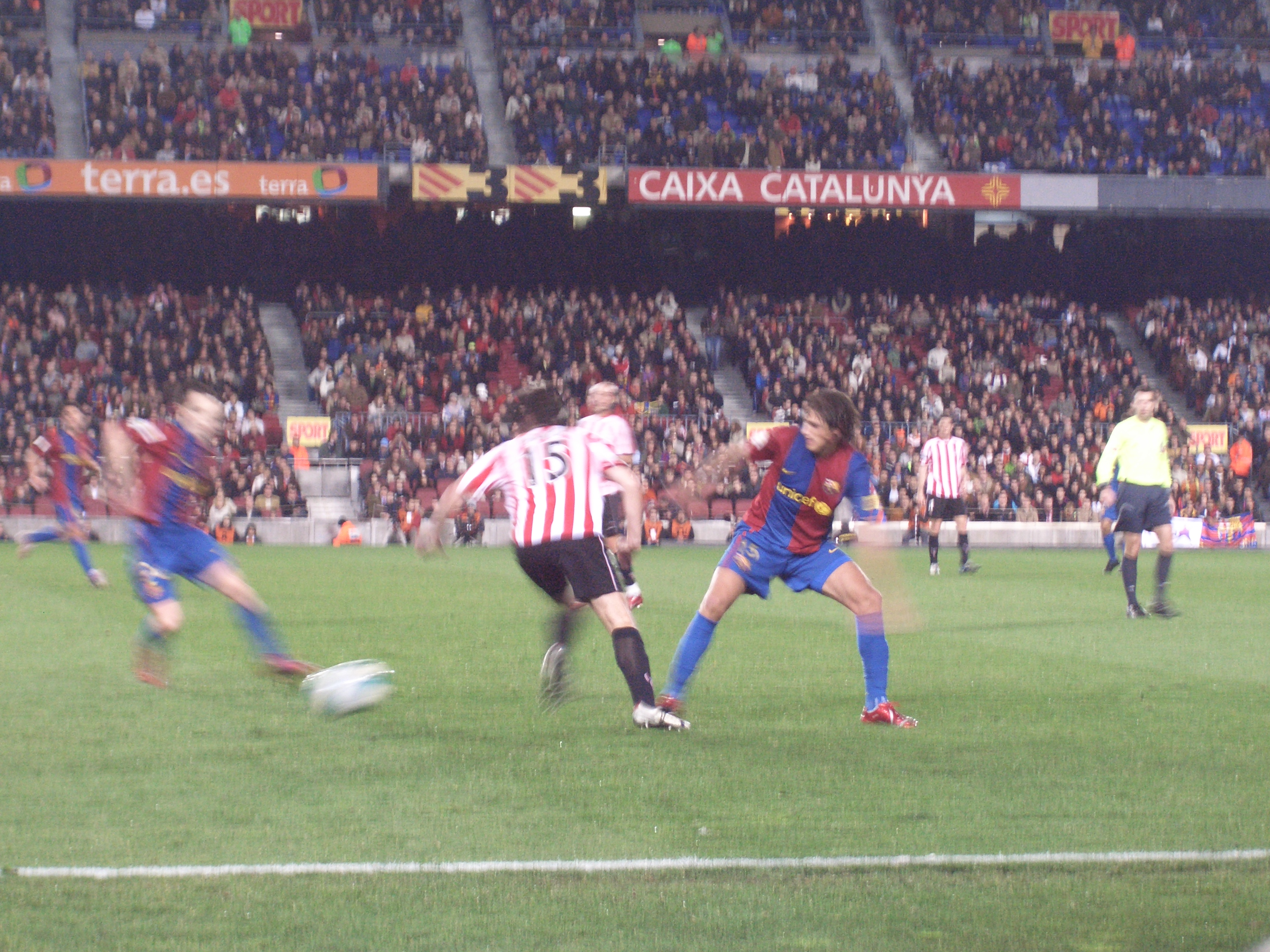 Edmilson, Iniesta and Iraola, FC Barcelona - Athletic Bilbao.